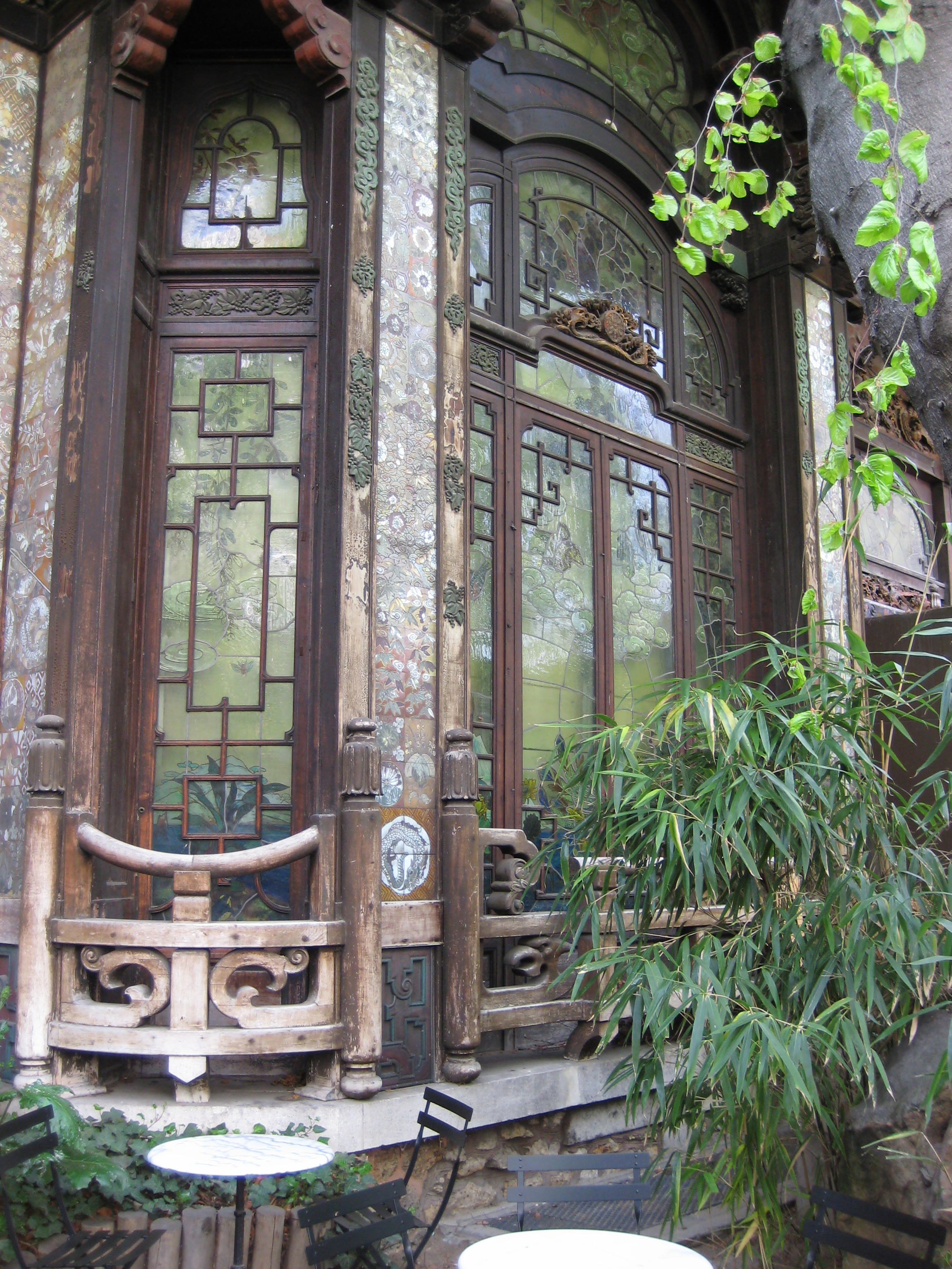 Outside La Pagode movie theater in Paris.